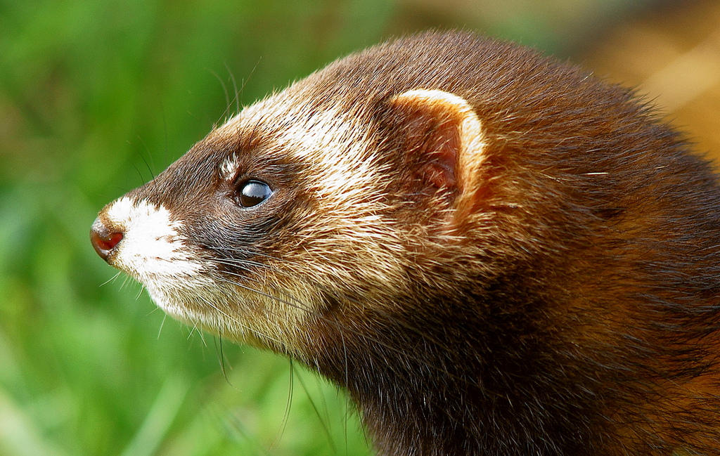 Seen at the British Wildlife Centre, Newchapel, Surrey. 'Velvet', the female polecat, looking at her audience.